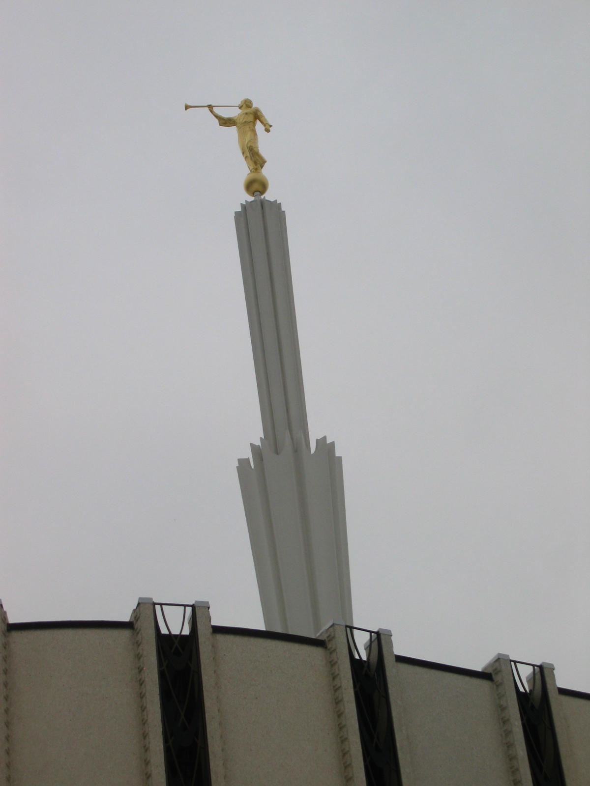 Angel Moroni on top of the Ogden Utah Temple.